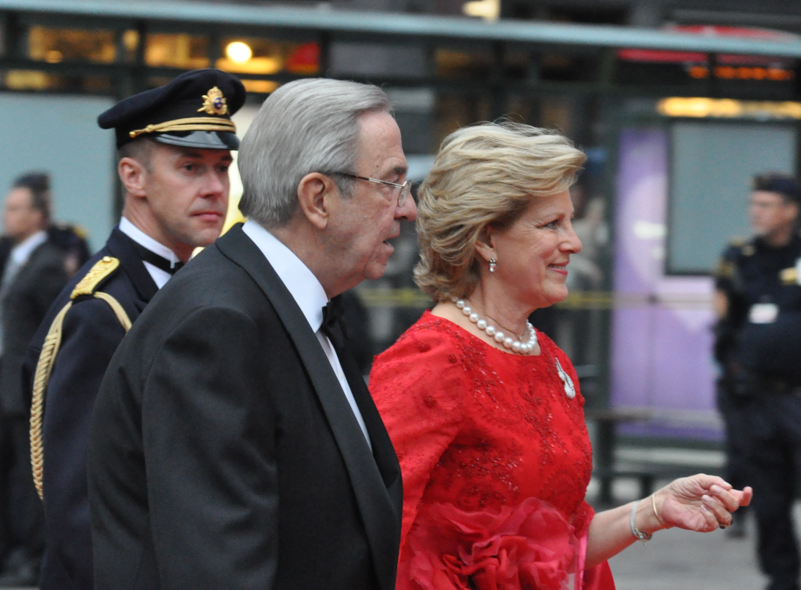 Wedding of Victoria, Crown Princess of Sweden, and Daniel Westling; Arrival of members for the Gouvernment and Swedish and foreign guests of hounour to the Riksdag's Gala Performance at Konserthuset